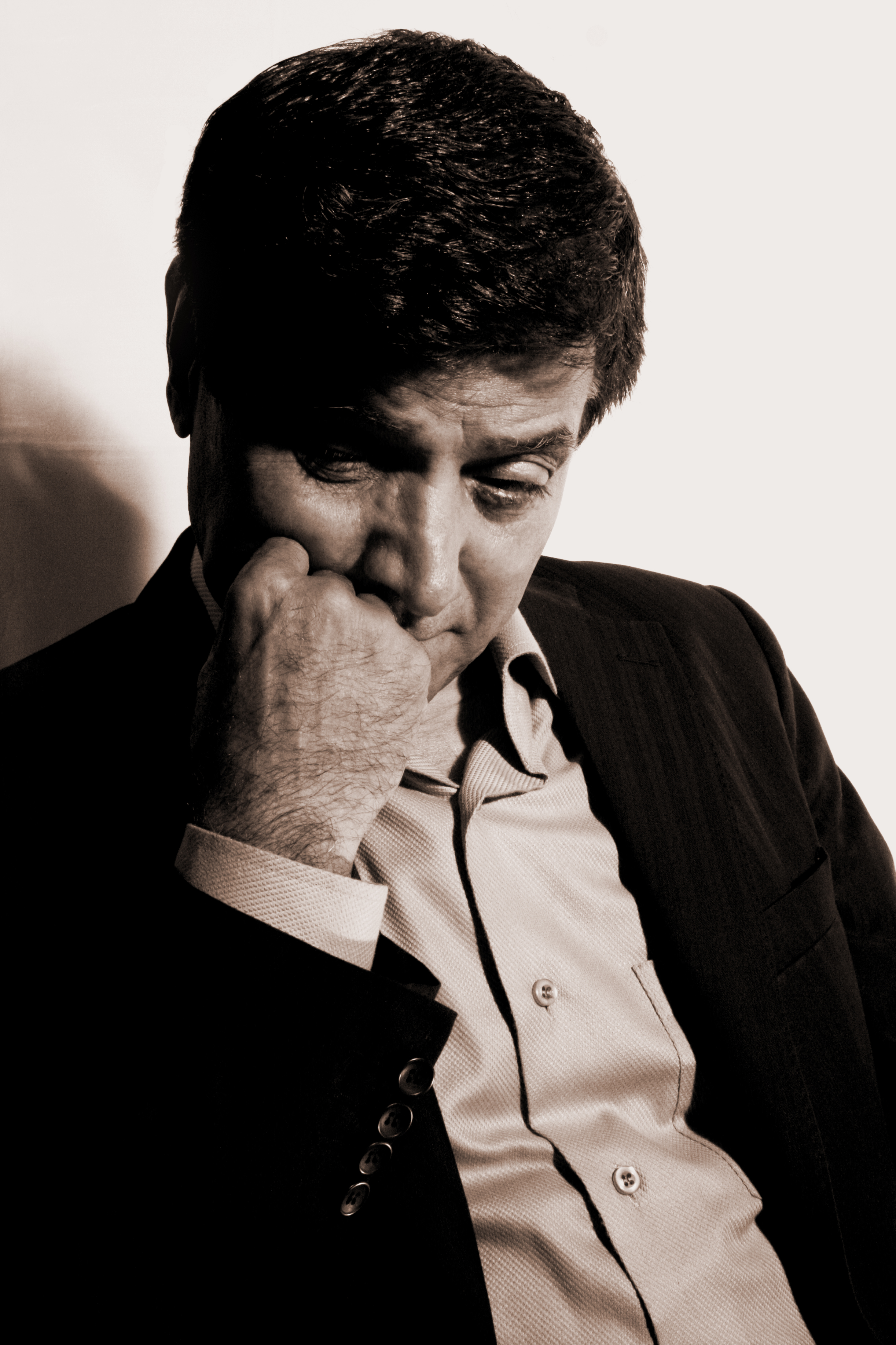 Dr Ghadamali Sarami